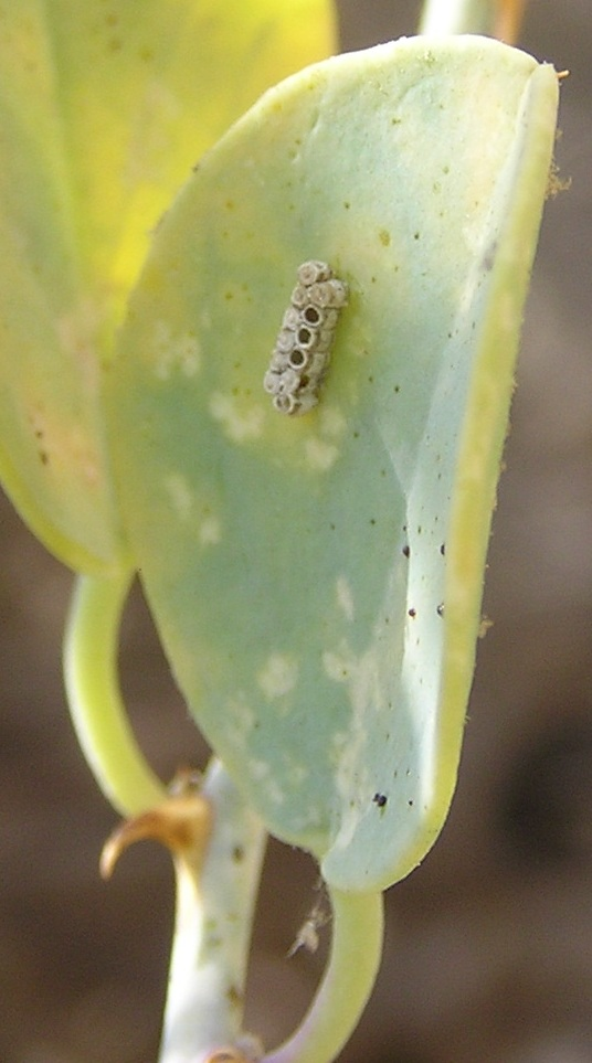 The ovoposition of Stenozygum coloratum. Tzuba, Israel